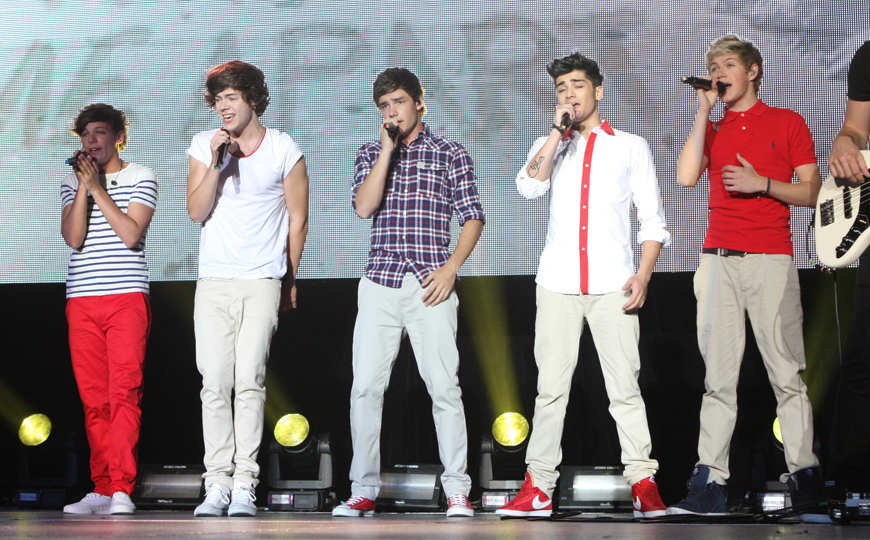 One Direction performs at Hordern Pavilion, Moore Park, Sydney, Australia 2012.